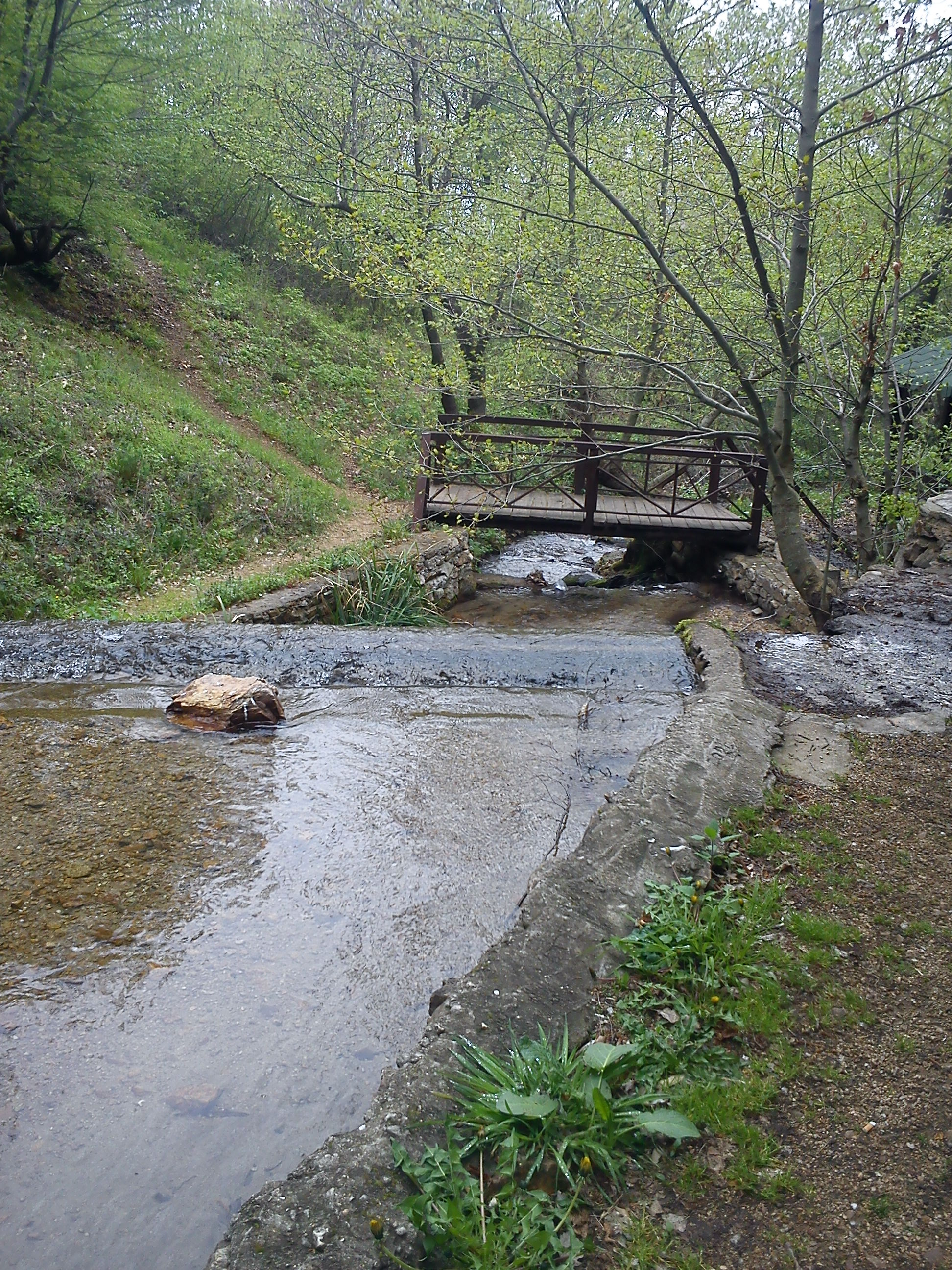 Carevi Kuli